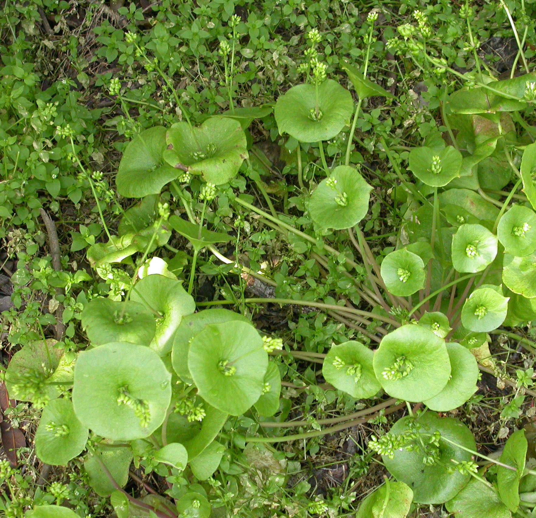 Claytonia perfoliata — Miners lettuce. In the Voorhis Ecological Reserve at California State Polytechnic University, Pomona, California